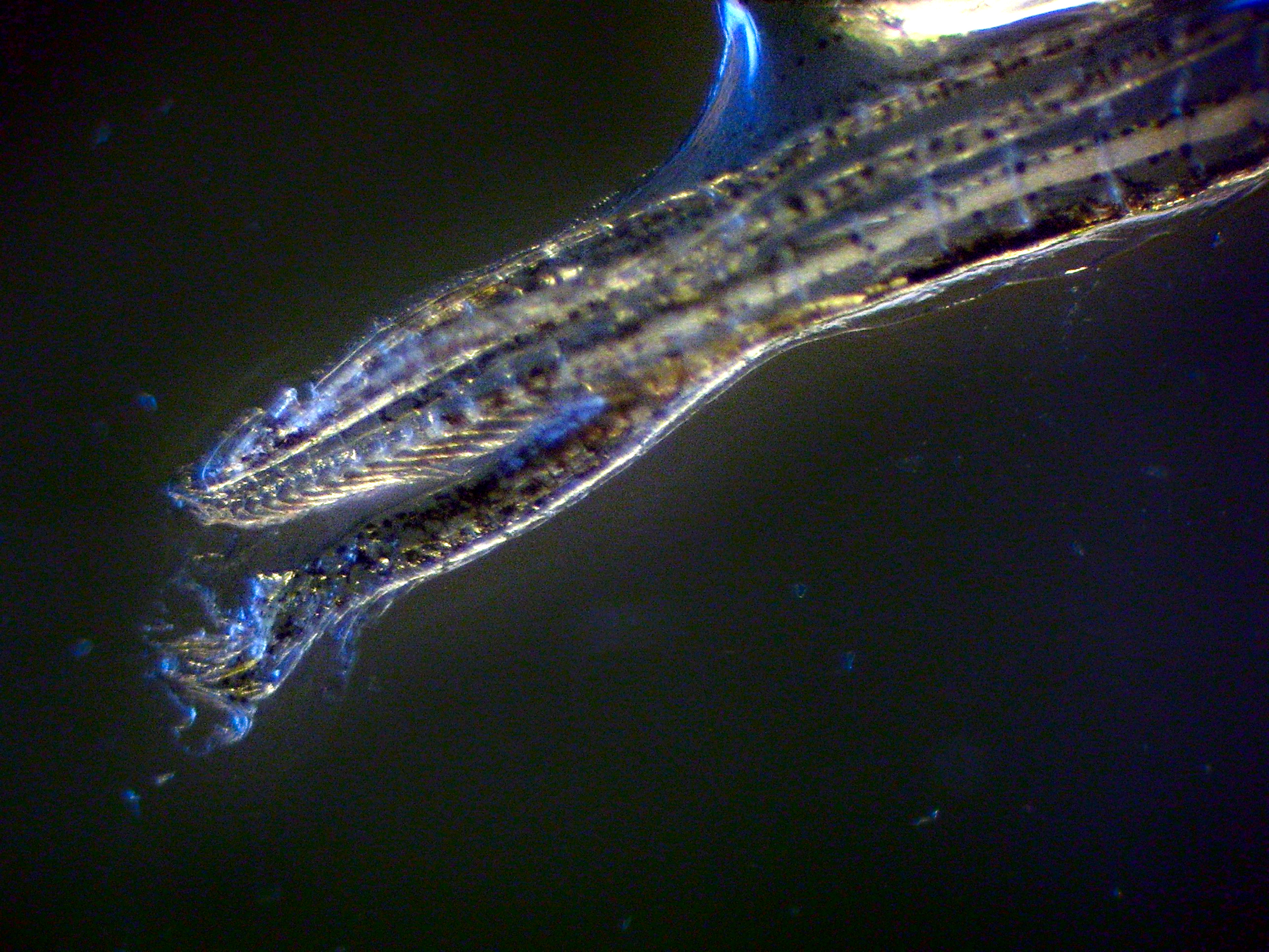 Gonopodium of Poecilia wingei